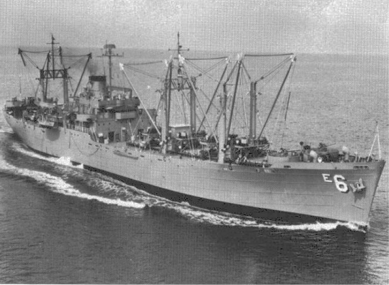 The U.S. Navy ammunition ship USS Shasta (AE-6) underway.